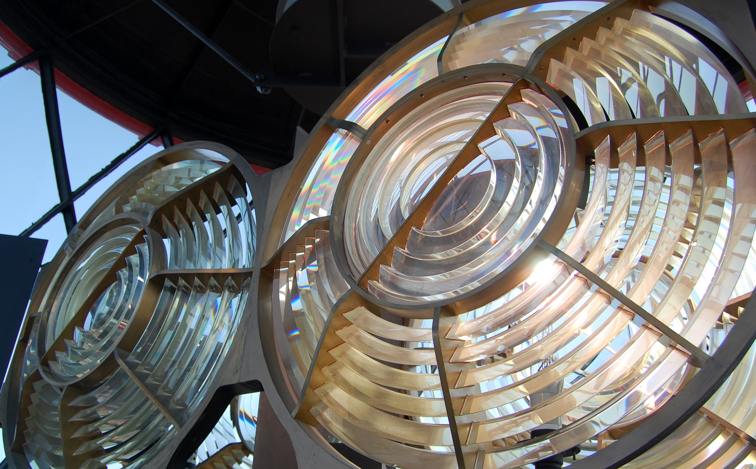 Longstone Lighthouse's twin 'spectacle' Fresnel lens optic